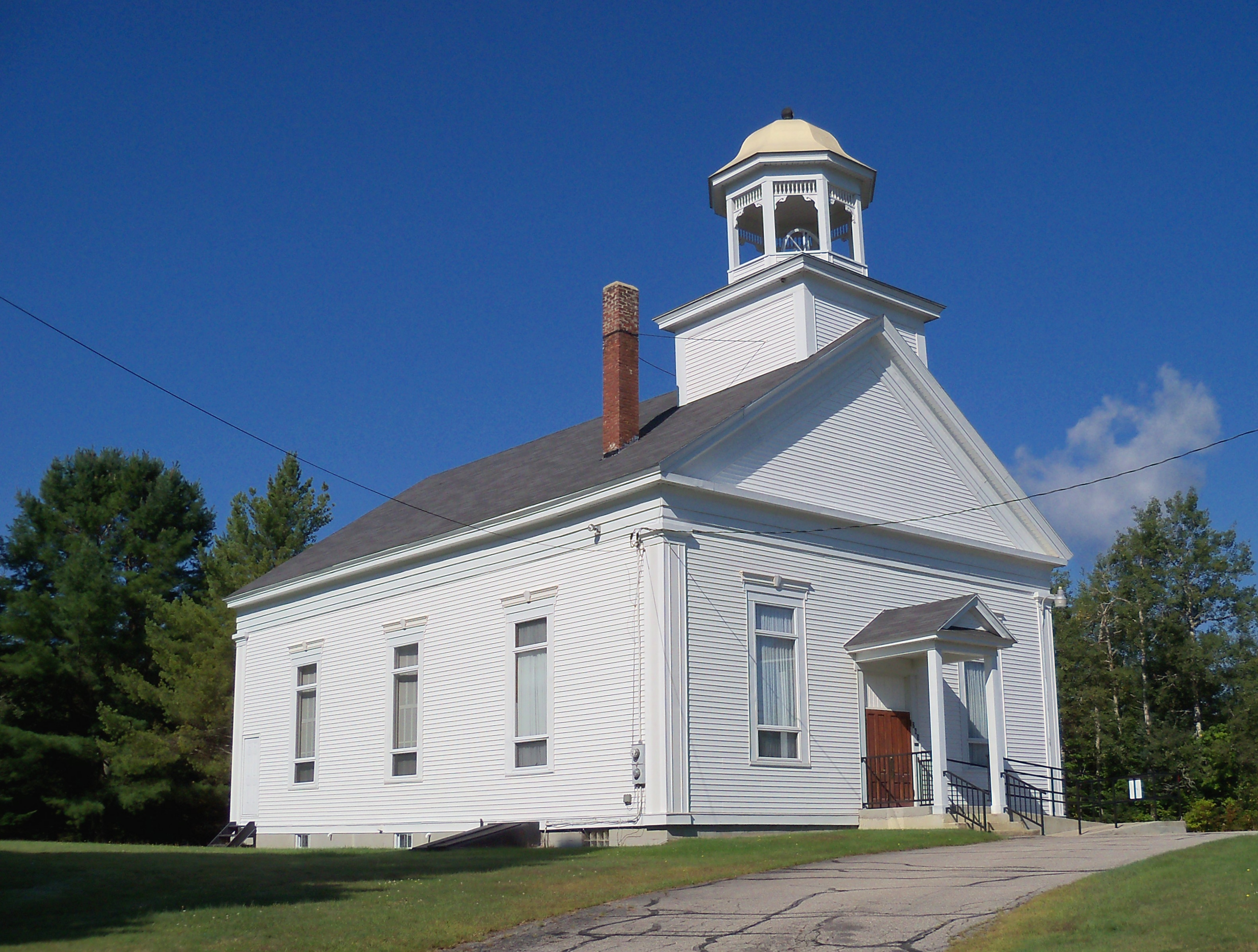 First United Methodist Church in Milan, New Hampshire, USA.